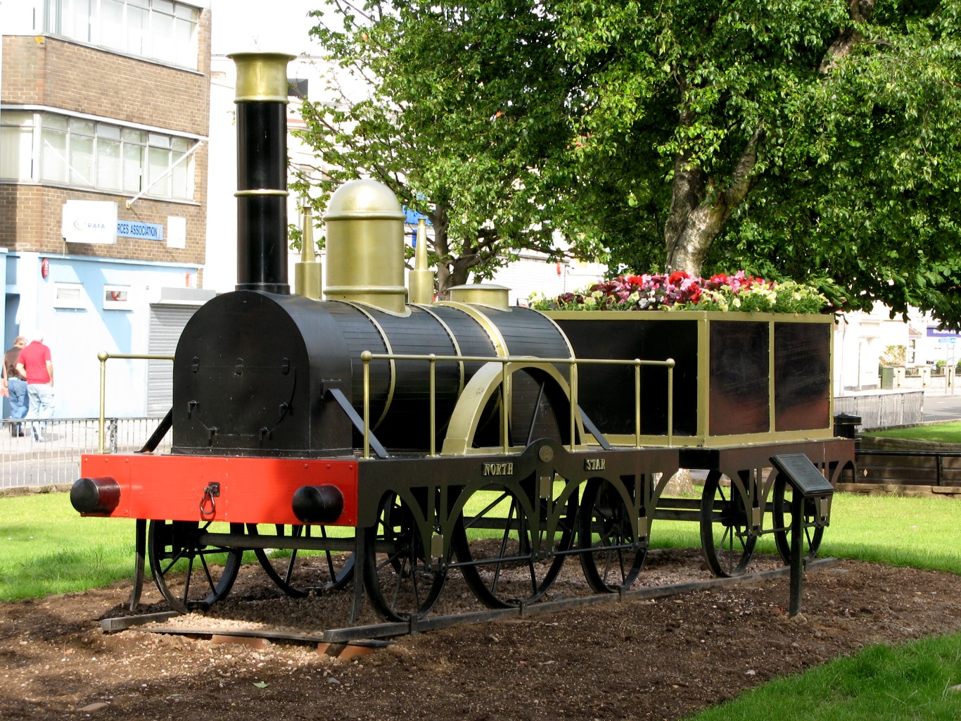 A replica of broad gauge locomotive North Star used as a flower bed at Weston-super-Mare, North Somerset, England. It was erected in 2006 to mark the 200th anniversary of Isambard Kingdom Brunel on the site of the town's first railway station.